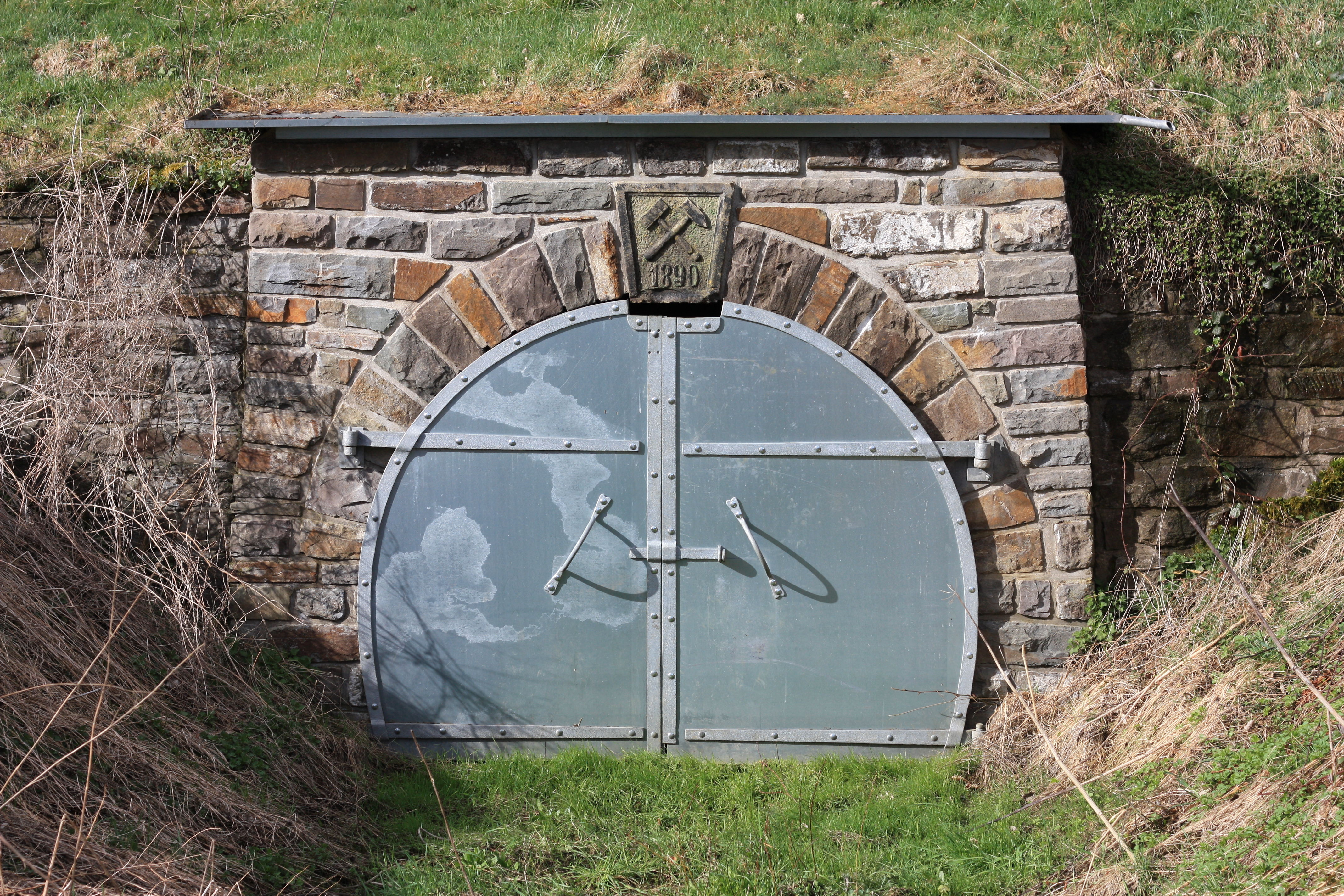 Adit mouths pit Magdalena in 51597 Morsbach, North Rhine-Westphalia, Germany, framing an inscription dated from 1890. Heritage property. 2,050 m long tunnel, opened in 1890 for the mining of iron ore. Access only on private land.